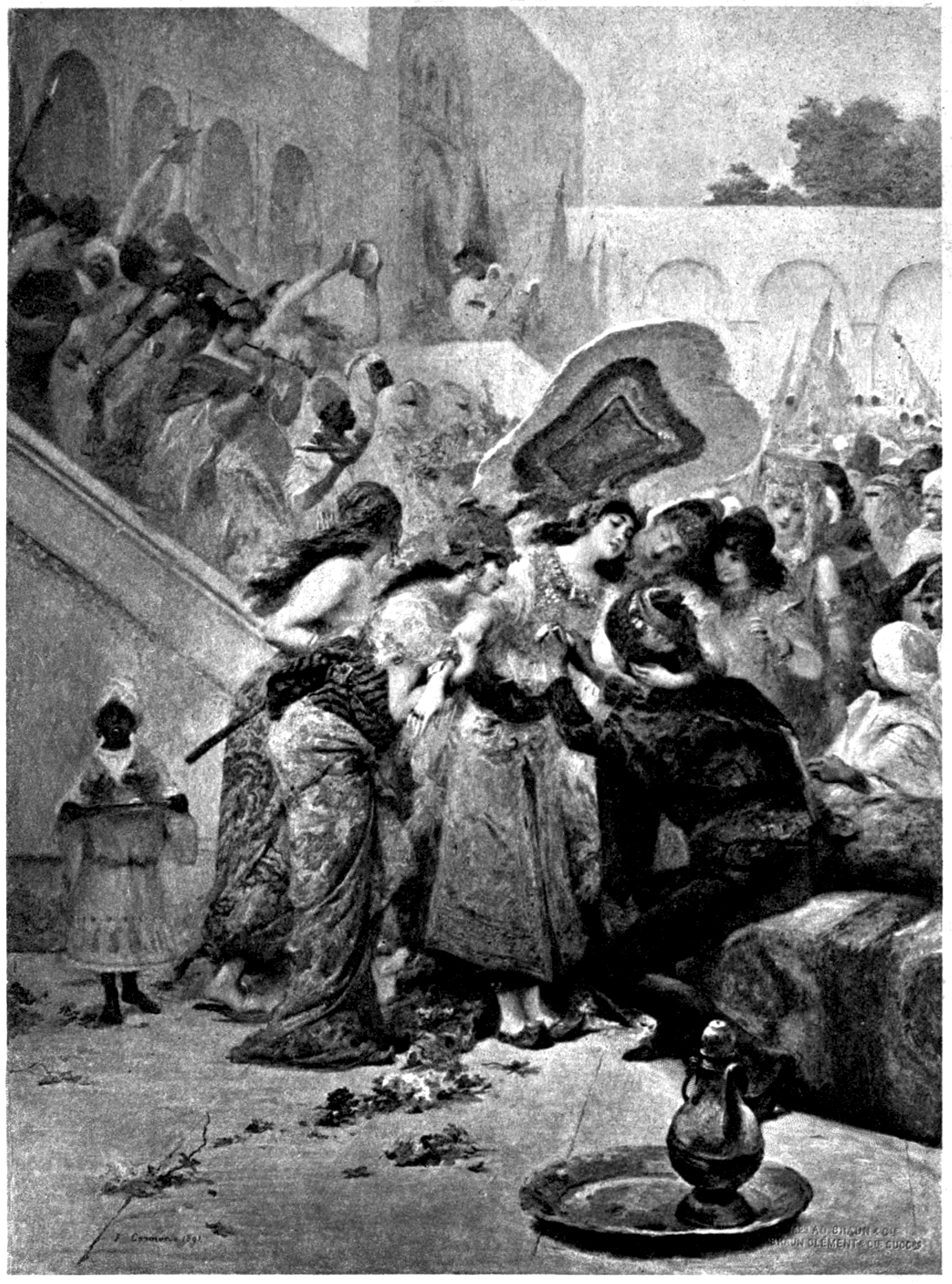 Design in private edition of a collection of stories